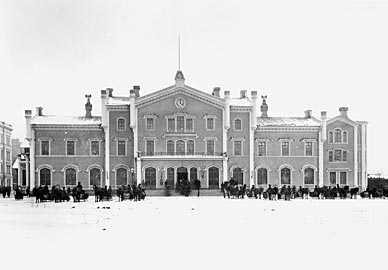 The old 1860 neoclassical Helsinki Central railway station (demolished early 20th century), Finland.